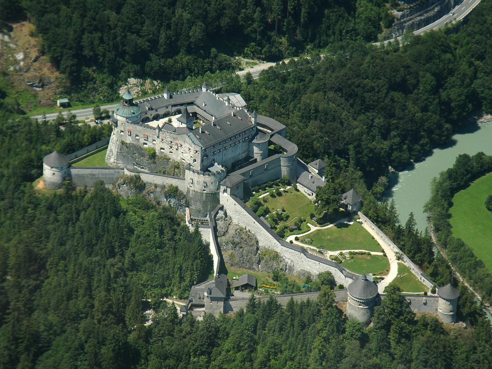 Areal shot of the fortress Hohenwerfen taken by Wolfgang Kaml sr. on July 20, 2006.